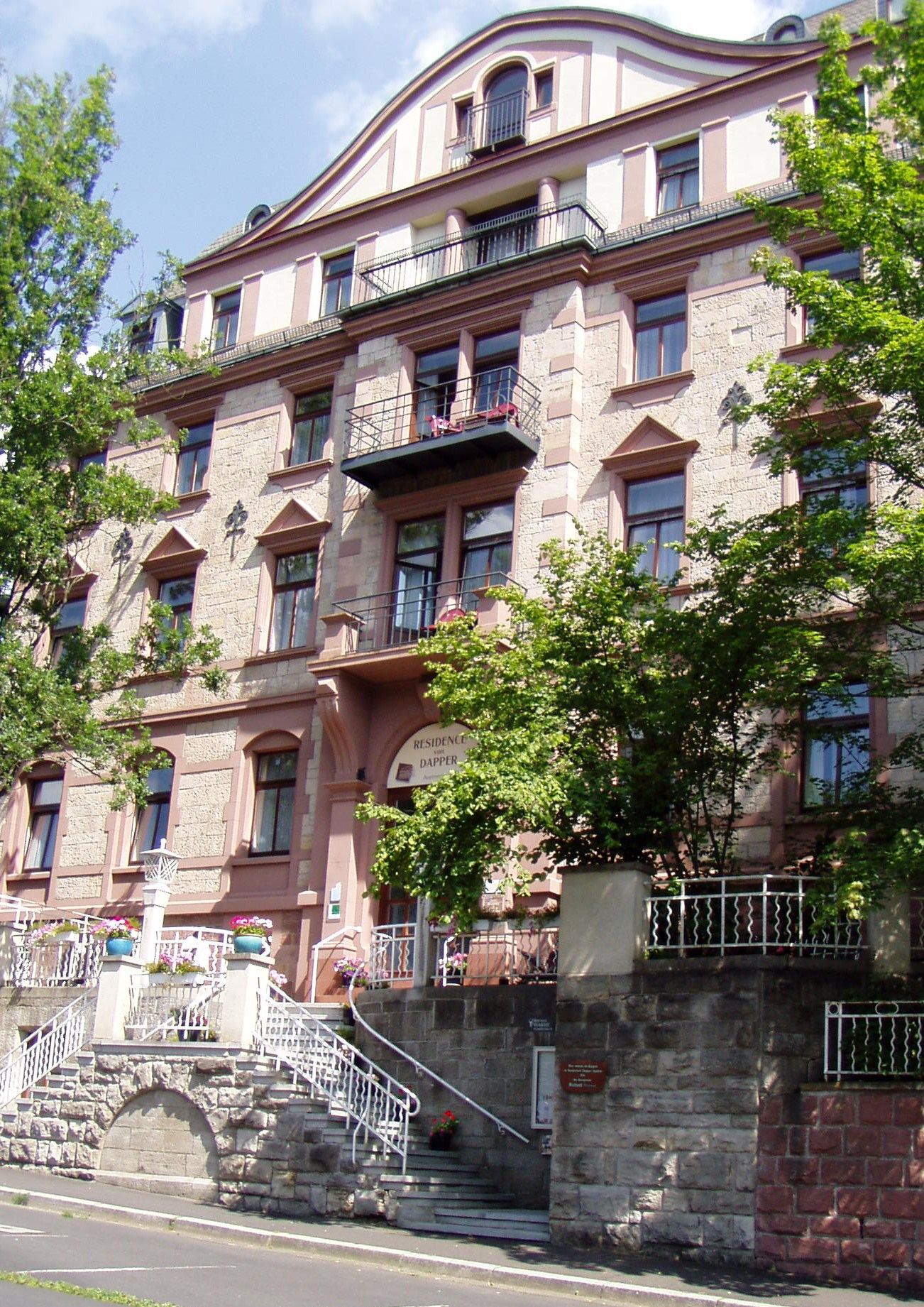 „Sanatorium von Dapper“ in Bad Kissingen (former main building), today used as 4-star-hotel „Residenz von Dapper“